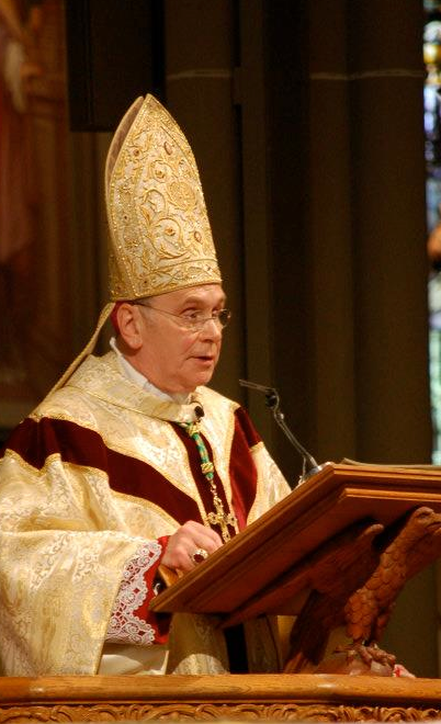 Bishop Roger Foys preaches at a priesthood ordination at the Cathedral Basilica of the Assumption in Covington, KY.